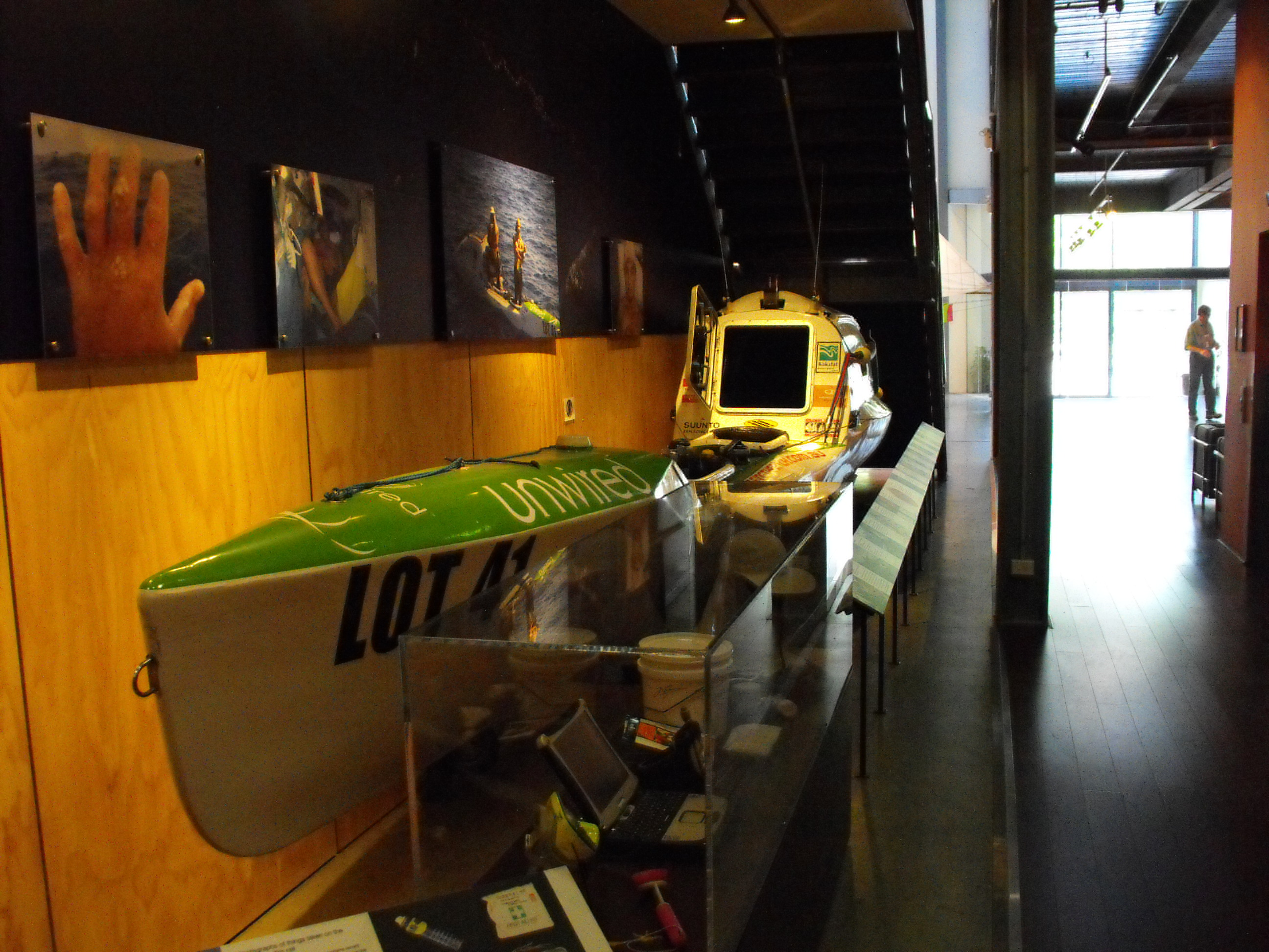 Front view of the sea kayak Lot 41, on display in the Australian National Maritime Museum's Wharf 7 annex with other artefacts from the voyage